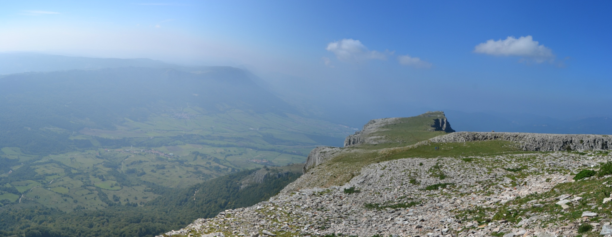 Iurbain mountain's panoramic view. Navarre, Basque Country.